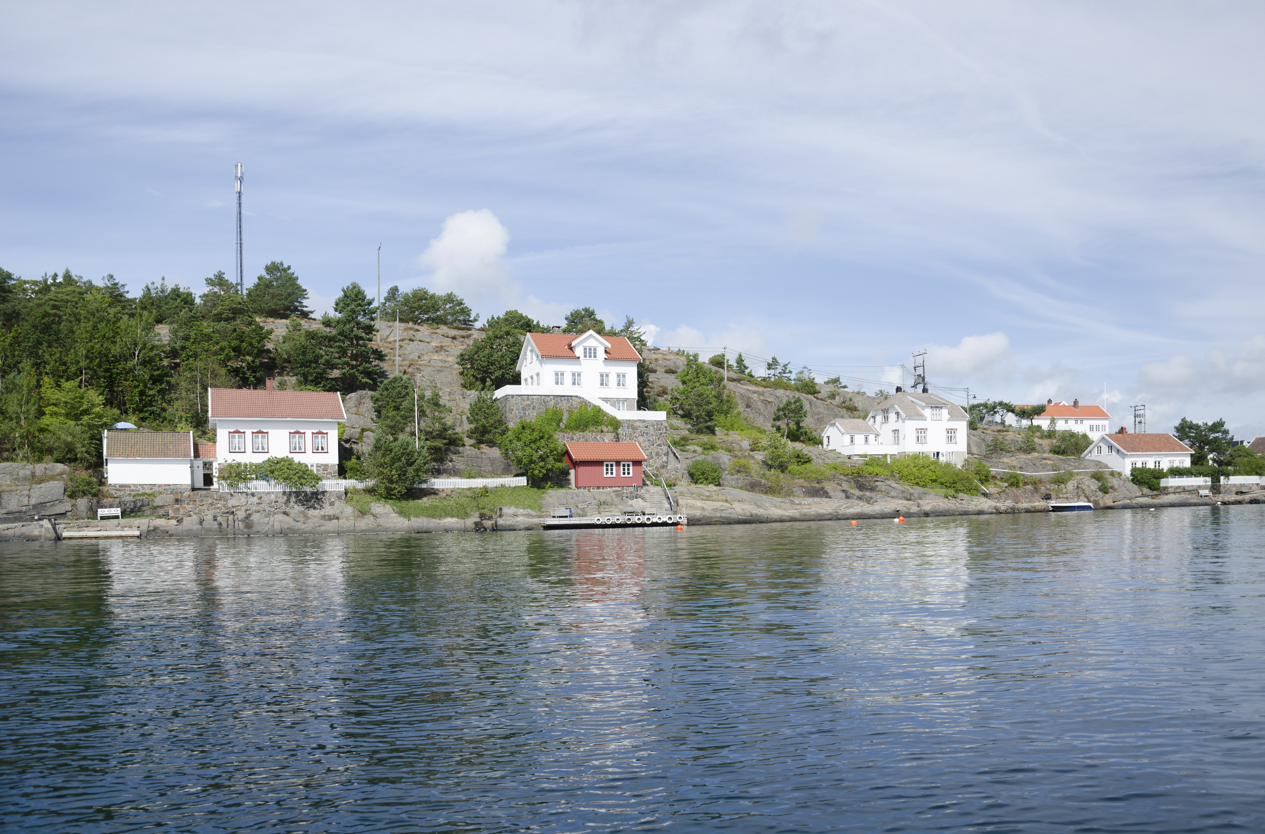 Houses in Lyngør in August 2017.